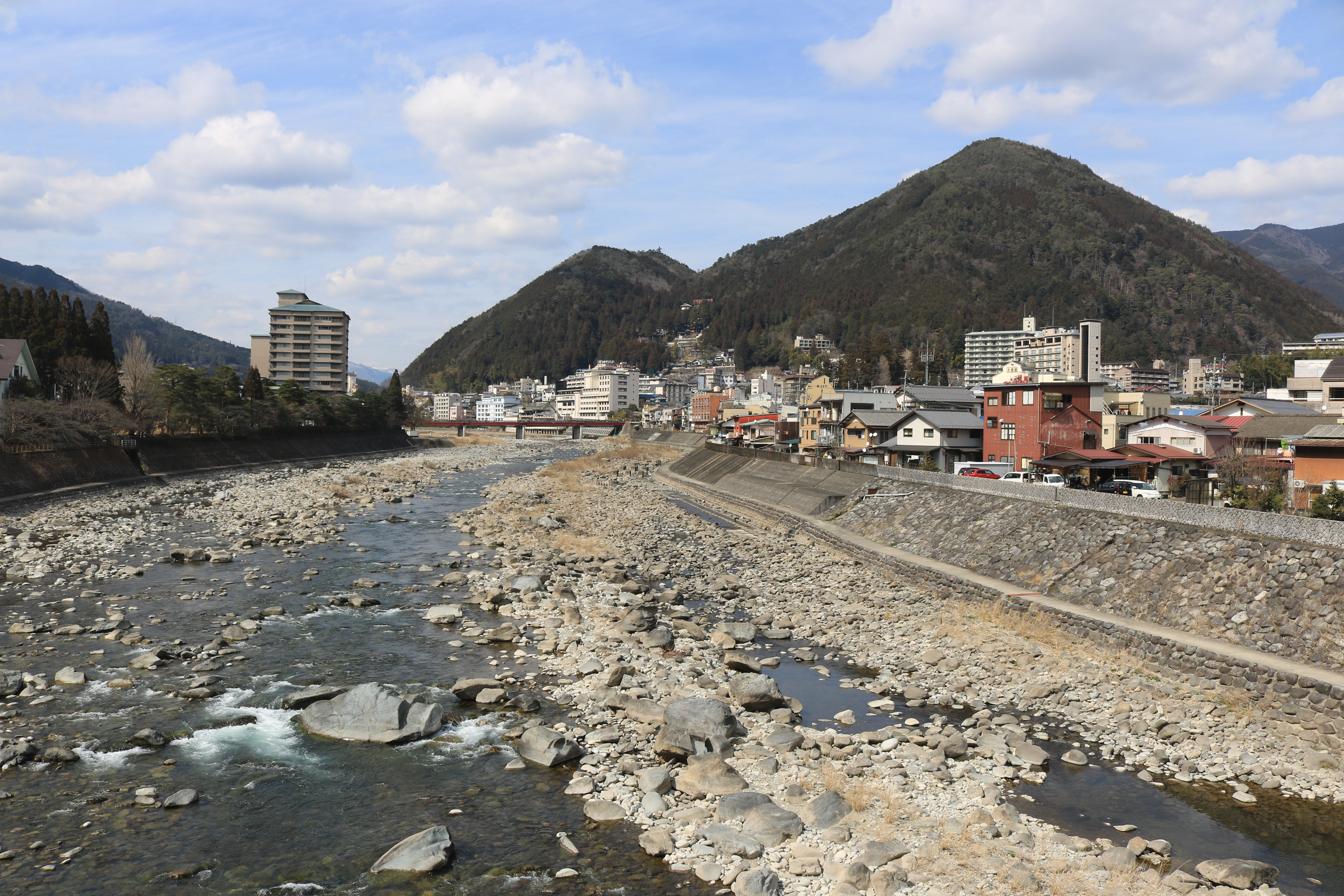 Hida River and Gero Onsen seen from Mutsumi Bridge in Gero, Gifu prefecture, Japan.